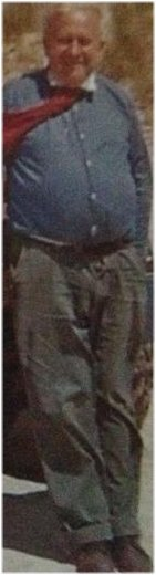 Swift Lathers, circa 1960